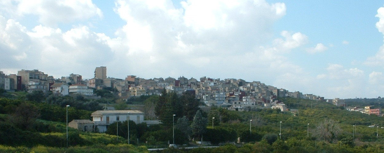 View of Francofonte (SR)